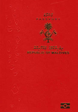 Maldives regular electronic passport introduced in 2016